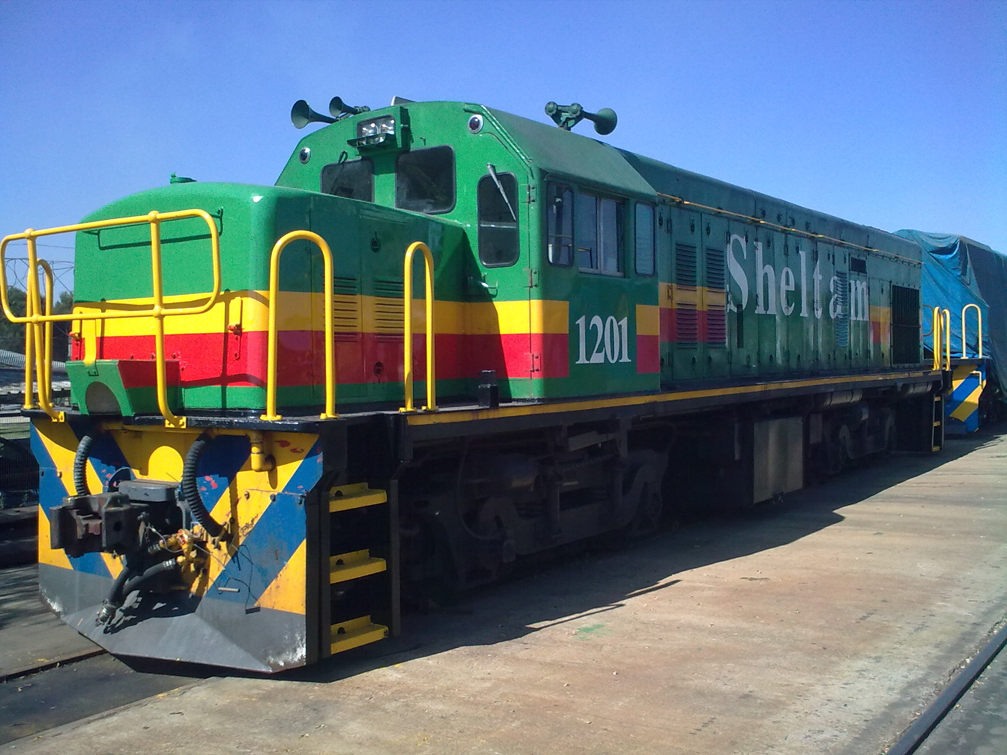 Sheltam 31-000 class diesel-electric locomotive, ex SAR 31-005